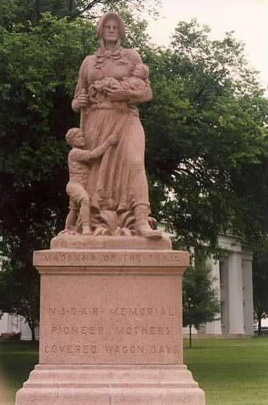 photo by Einar Einarsson Kvaran (the uploader) Madonna of the Trail